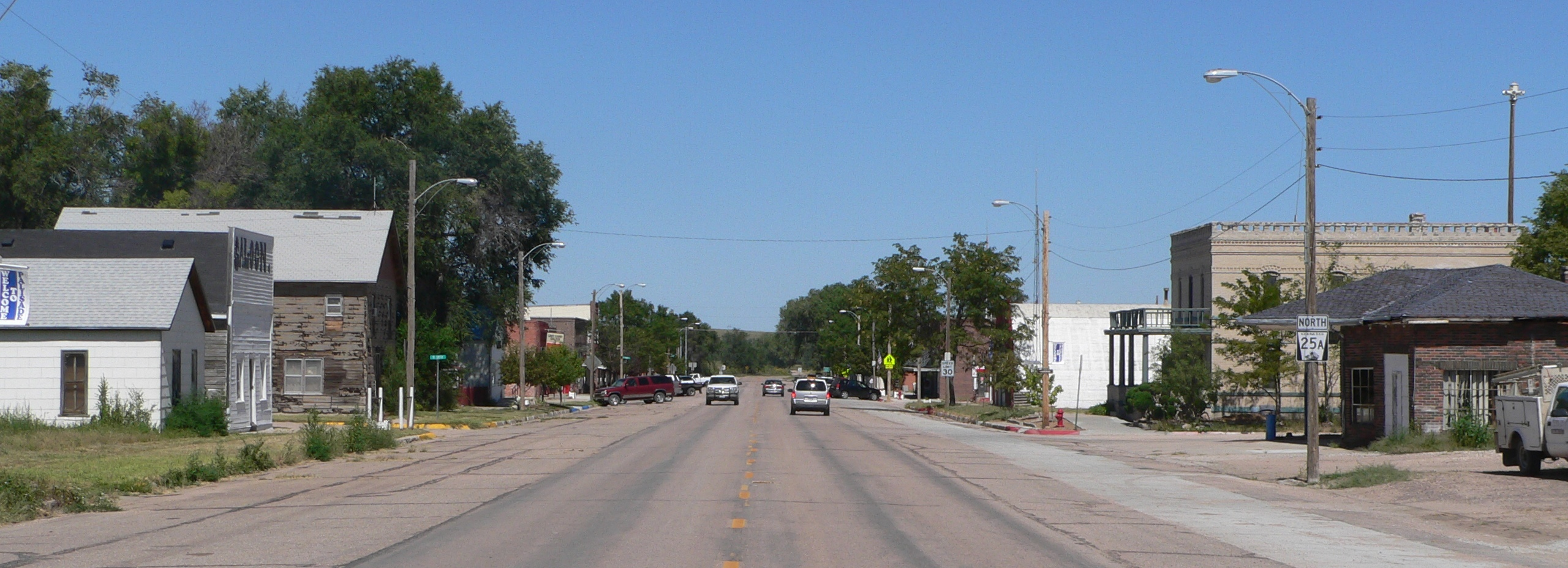 Palisade, Nebraska: Main Street, looking north from about Railway Street.